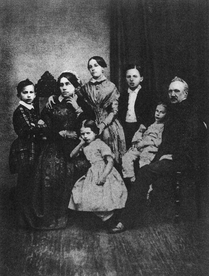 Photo of Tchaikovsky family in 1848, from left to right: Pyotr Tchaikovsky, his mother Alexandra Andreyevna, his sister Alexandra (seated), sister Zinaida (standing), brother Nikolai (standing), brother Ippolit (seated), and father Ilya Petrovich.